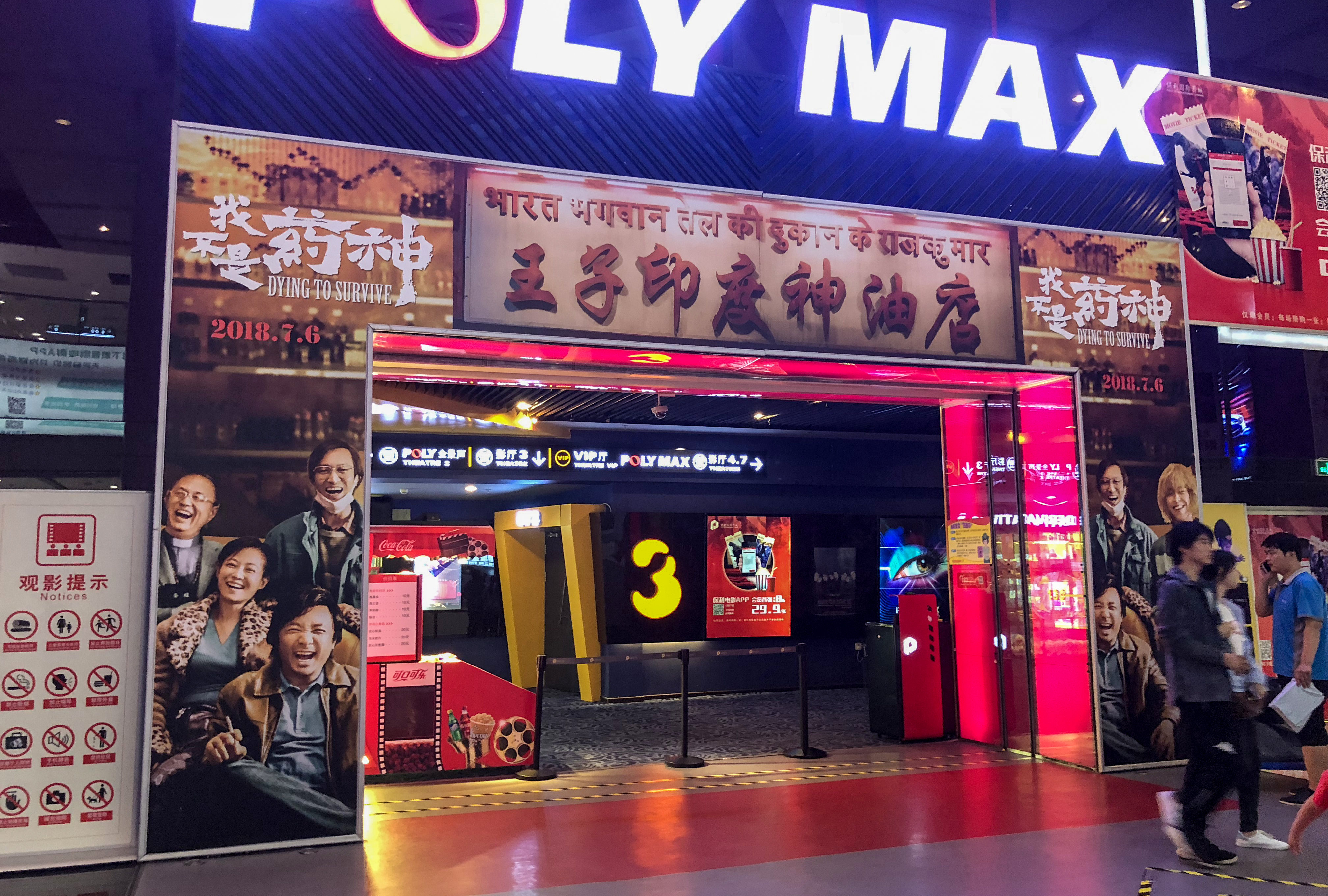 The entrance features a gate-like poster of Dying to Survive, an extremely hot film recently about a Chinese leukemia patient who smuggled cheap but unproven cancer medicine from India.